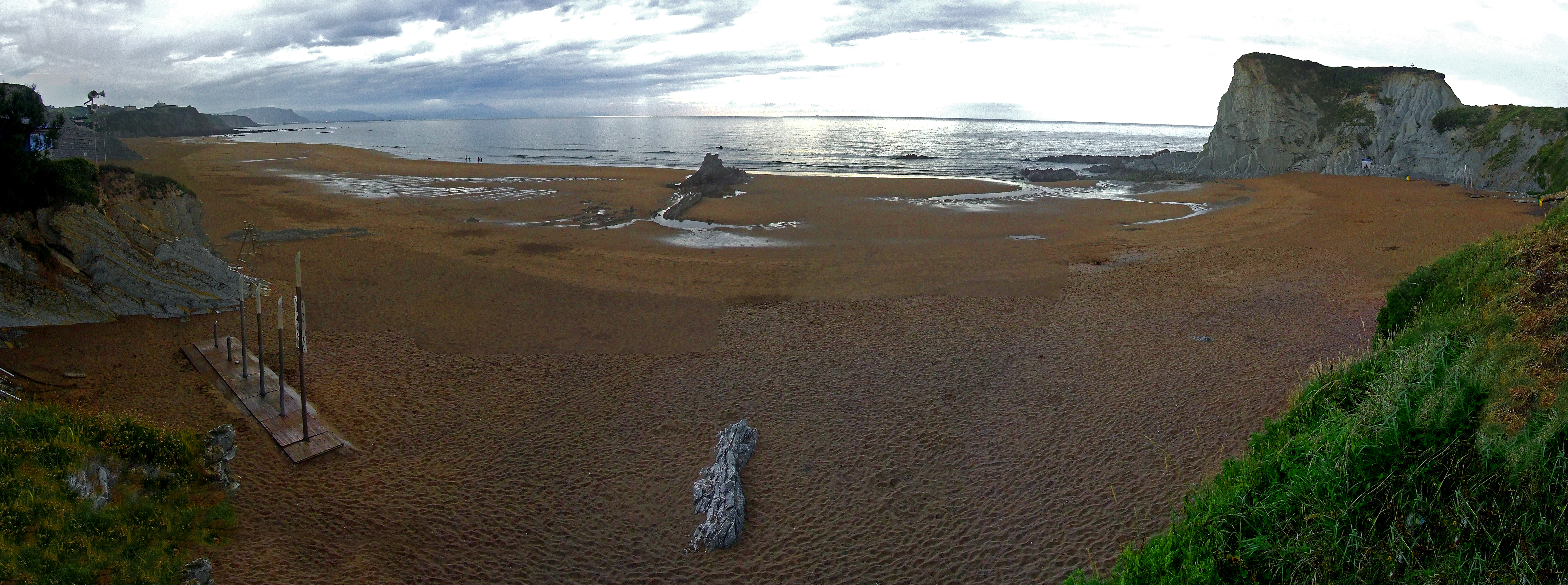 Panoramic of Arrietara (left) and Atxabiribil (right) beaches in Sopelana, Basque Country.